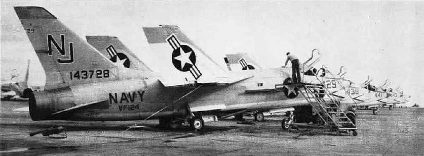 U.S. Navy Vought F8U-1 Crusaders of fighter squadron VF-124 Gunfighters at Naval Air Station Miramar, California (USA), in the early 1960s. VF-124 was a fleet replacement squadron which trained pilots. It was established on 11 April 1958 and disestablished on 30 September 1994.